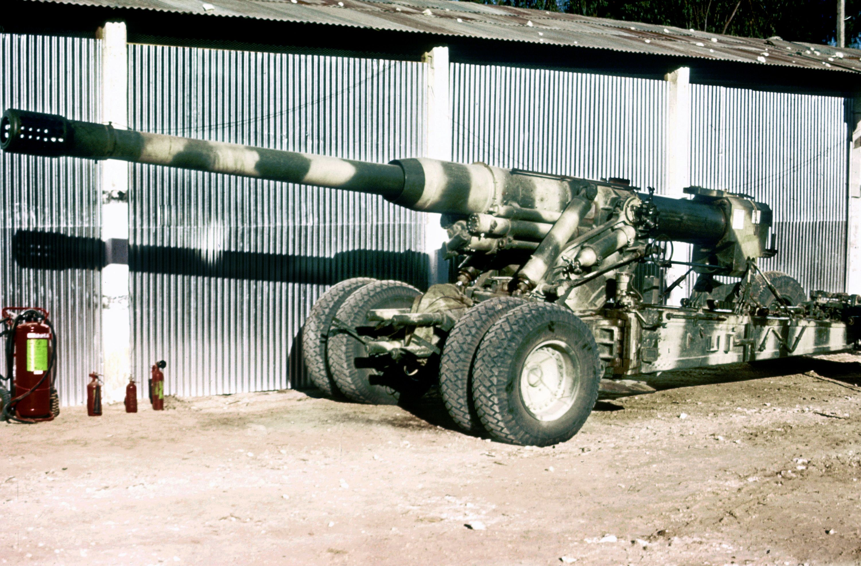 A right front view of a Soviet-built S-23 180 mm gun.